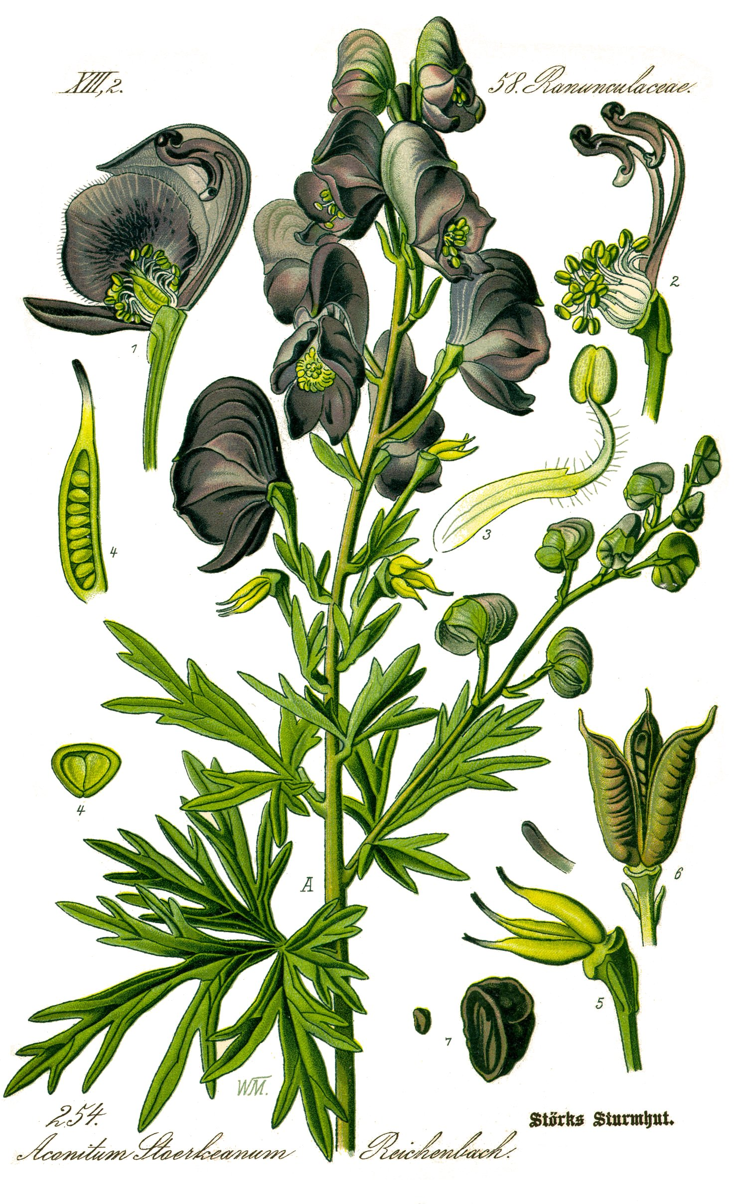 Clean version of Image:Illustration_Aconitum_napellus0.jpg Name Aconitum napellus Family Ranunculaceae